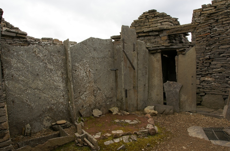 Midhowe Broch, Rousay, Orkney, Scotland - northern part of interior